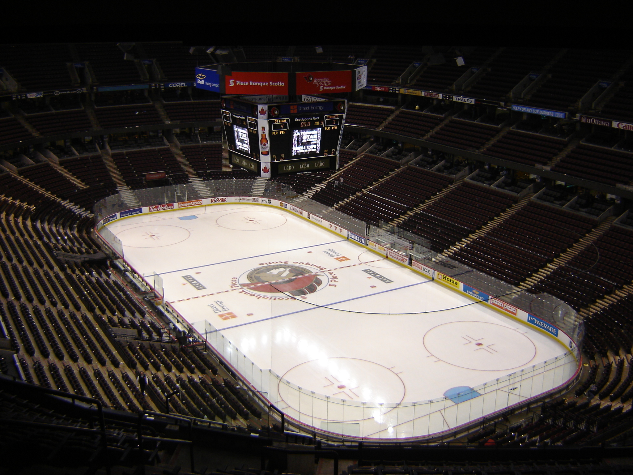 Inside view of Scotia Bank Place, the ice hockey stadium in Ottawa, Ontario, when empty.